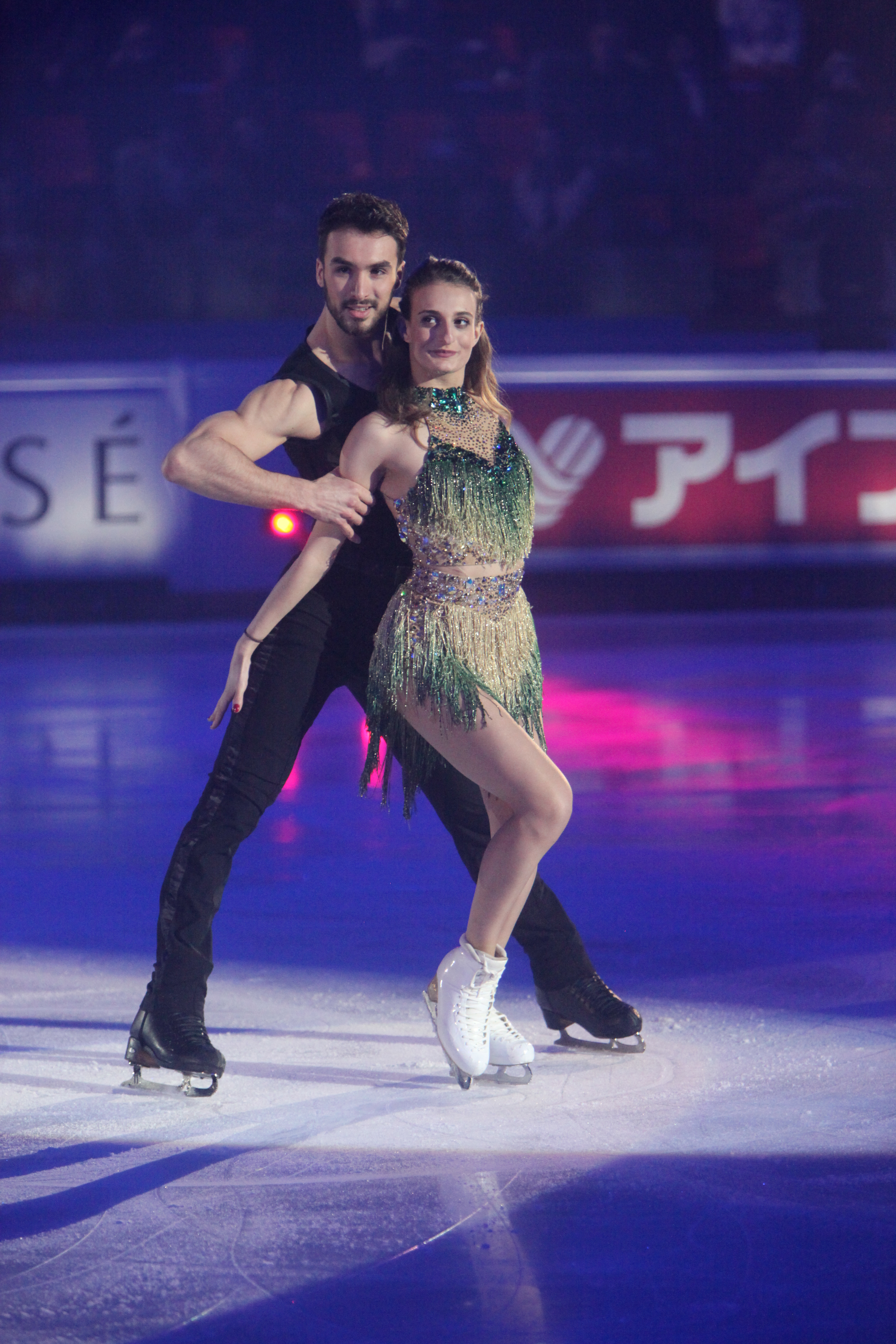 Gabriella Papadakis and Guillaume Cizeron during the gala at the Internationaux de France de Patinage 2018.